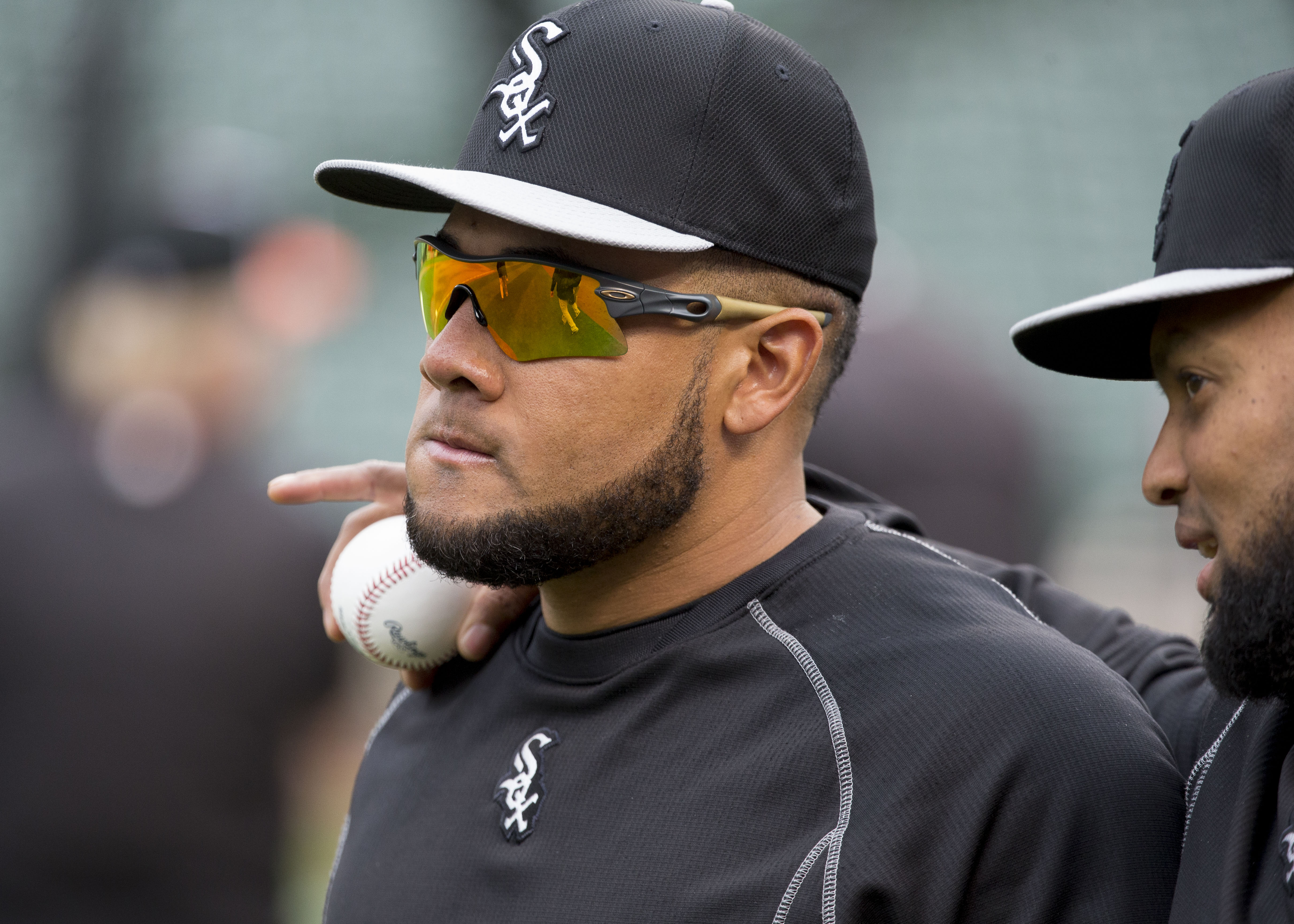 White Sox at Orioles 4/27/15